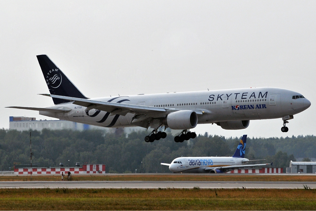 Boeing 777-2B5-ER Korean Air (HL7733) at Moscow-Sheremetyevo Airport